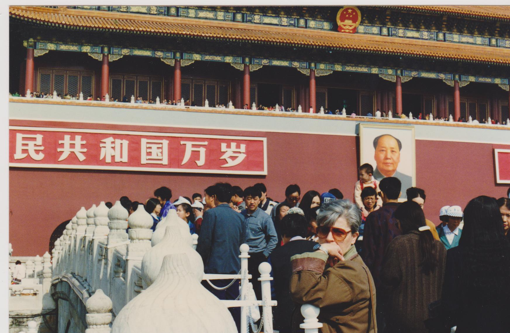 Imperial City - Gate of Heavenly Peace